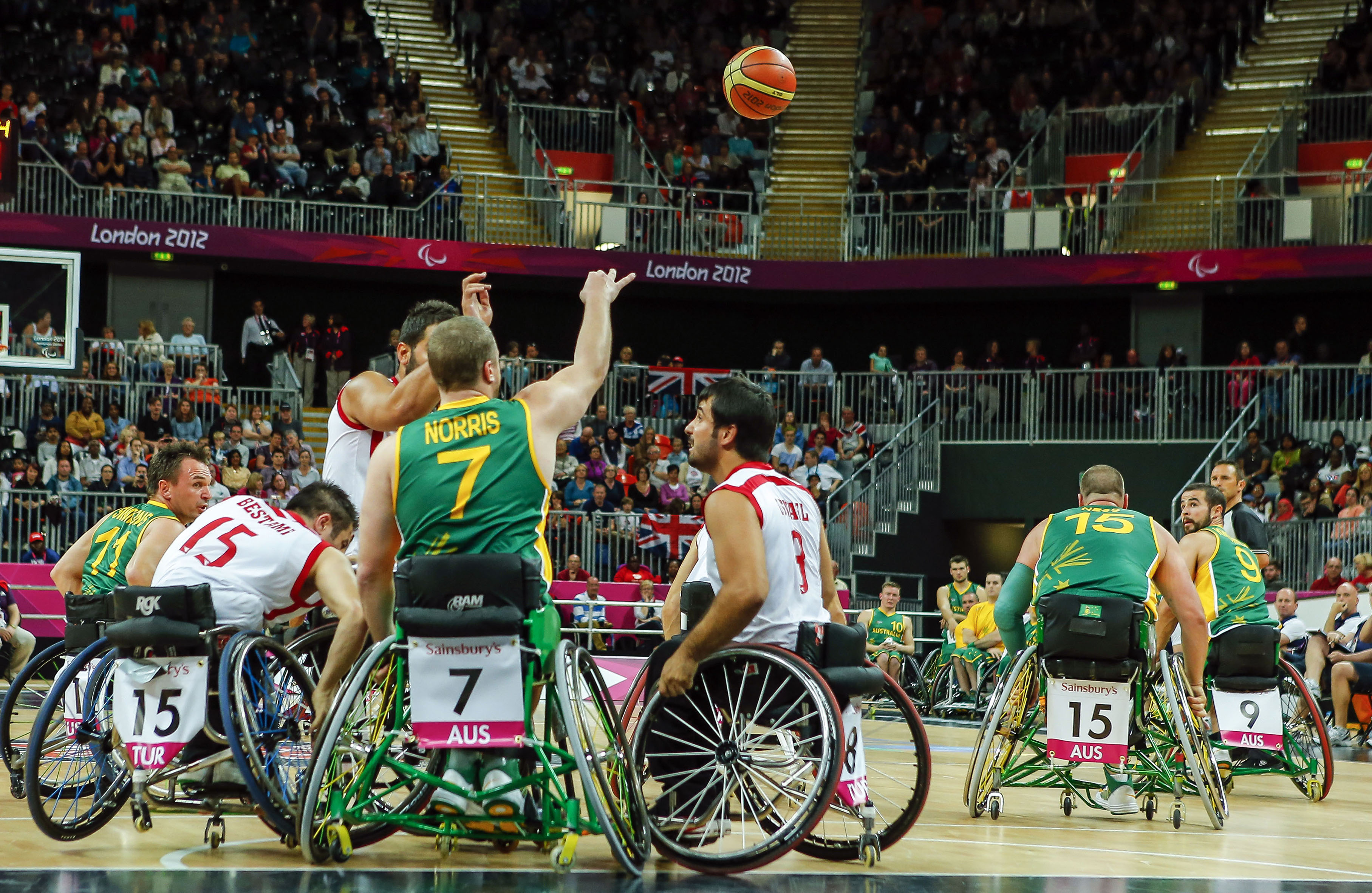 Photograph of Australian Paralympic team member Shaun Norris at the 2012 Summer Paralympic Games in London